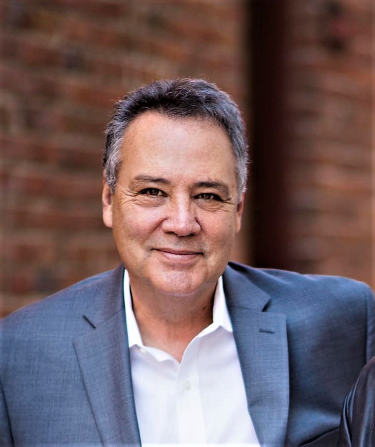 Sam Zamarripa